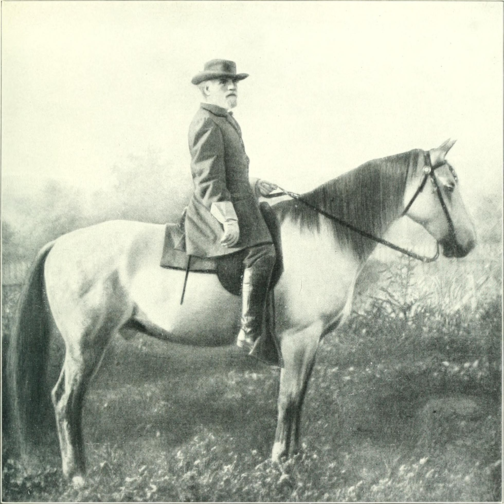 Title: The photographic history of the Civil War : thousands of scenes photographed 1861-65, with text by many special authorities Year: 1911 (1910s) Authors: Miller, Francis Trevelyan, 1877-1959 Lanier, Robert S. (Robert Sampson), 1880- Subjects: United States -- History Civil War, 1861-1865 Pictorial works United States -- History Civil War, 1861-1865 Publisher: New York : Review of Reviews Co. Text Appearing Before Image: ' Text Appearing After Image: COPYRIGHT, 191 R VIEW OF REVIEW I CAN ONLY SAY HE IS A CONFEDERATE GRAY—LEE ON TRAVELLER This famous photograph of Lee on Traveller was taken by Miley, of Lexington, in September, 180(5. InJuly of that year Brady, Gardner, and Miley had tried to get a photograph of the general on his horse, butthe weather was so hot and the flies accordingly so annoying that the pictures were very poor. But theSeptember picture has become probably the most popular photograph in the South. In the Army ofNorthern Virginia the horse was almost as well known as his master. Il was foaled near the White SulphurSprings in West Virginia, and attracted the notice of General Lee in 18G1. Lees affect ion for it was verydeep and strong. On it he rode from Richmond to Lexington to assume his duties as president of WashingtonCollege. During the remainder of his life Traveller was his constant companion. His son records thatthe general enjoyed nothing more than a long ride, which gave him renewed energy for his wo